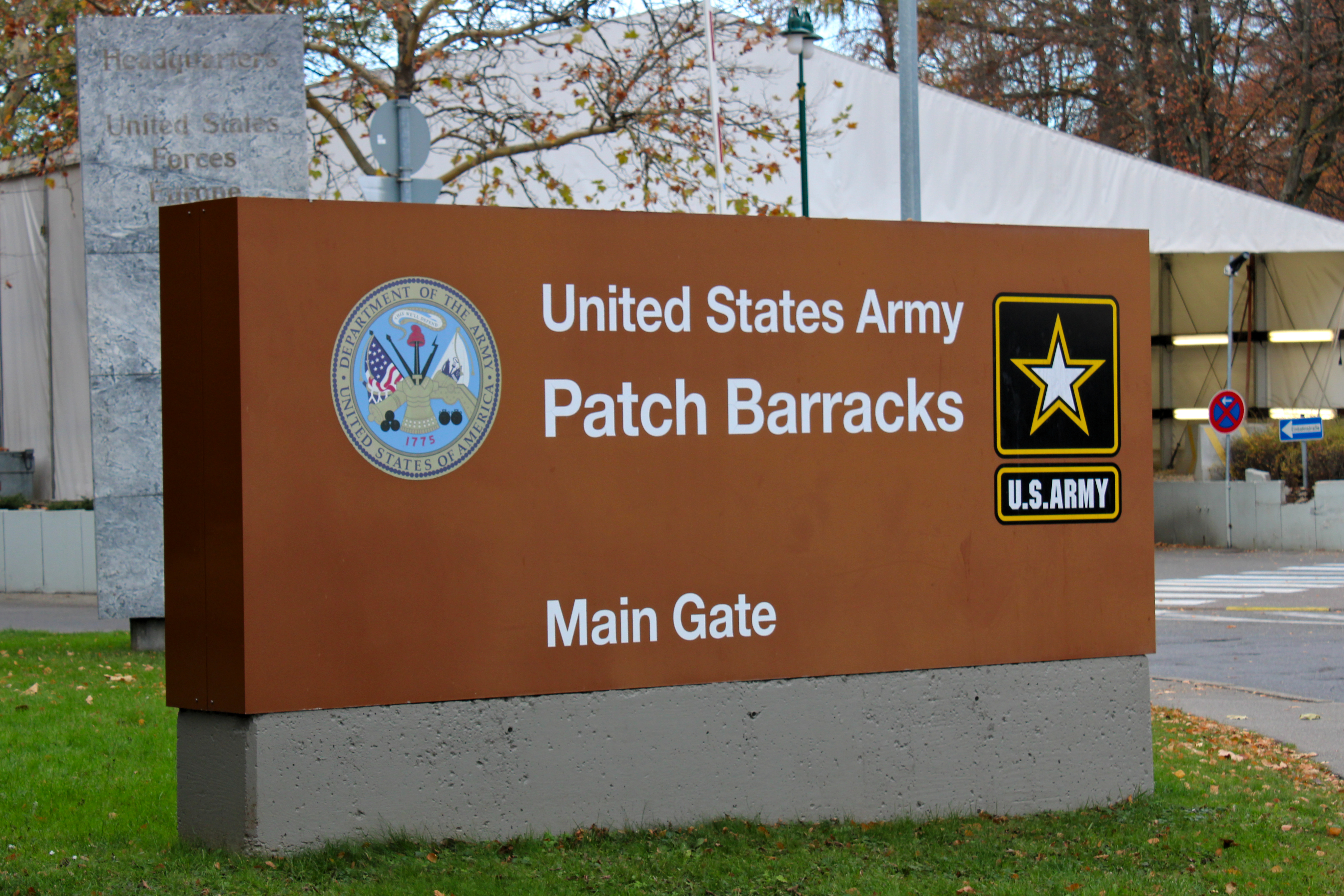 Patch Barracks in Stuttgart